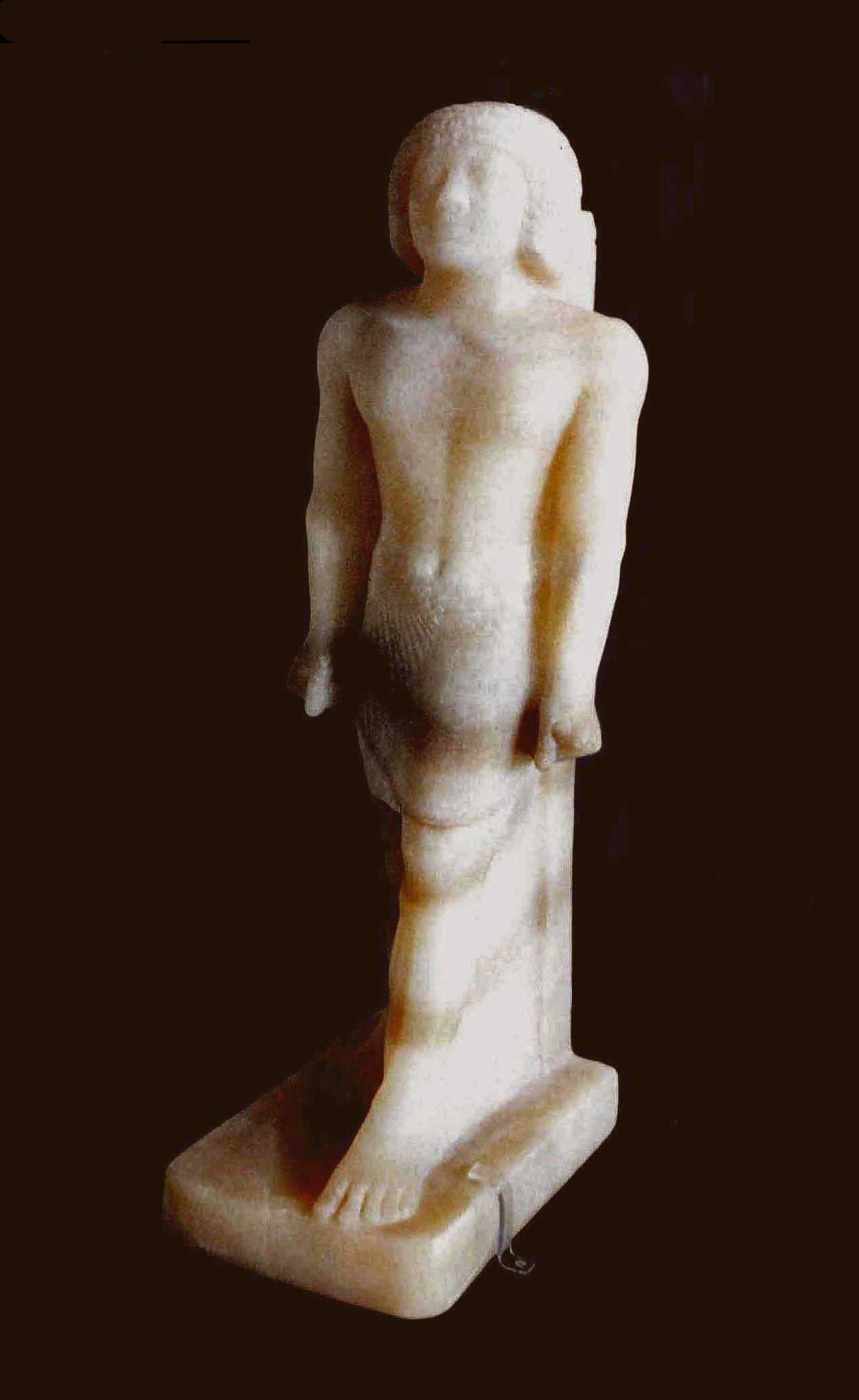 Alabaster statue of Prince Babaef (B), vizier of King Shepseskaf from, Gîza. Tomb G 5230. The statue was found in the in the rubble located northwest of the "serdab". Now in Vienna, Kunsthistorisches Museum, Inv. 7785. Titles of Babaef are mentioned in the dorsal column of this statue: - Prince "h3tj-'" - "Overseer of all works of the king". bibliography: Junker. "Gîza" VII, Taf. XXX, XXXI, Abb, 64 [left], pp. 152, 154 [No. 1], 155-6 [a].